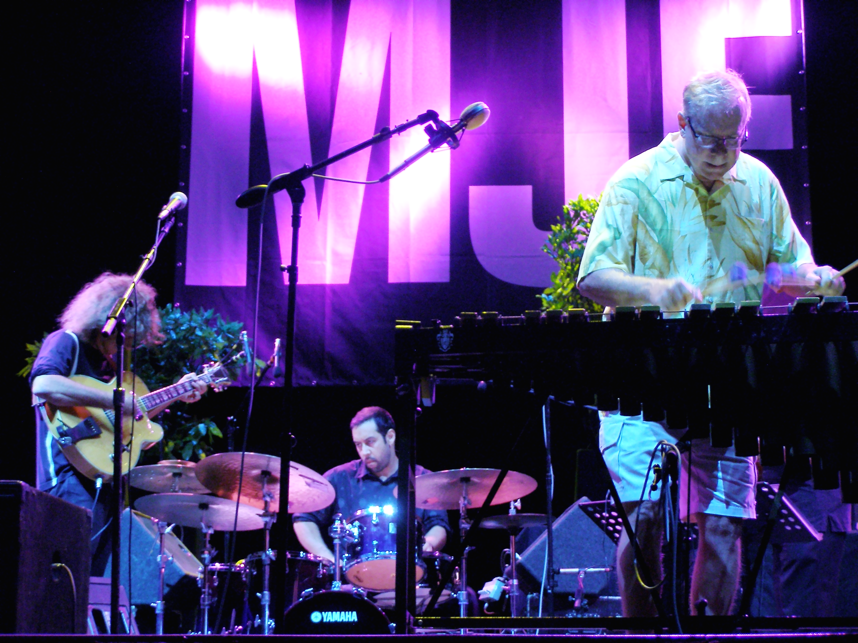 Gary Burton (on the right), Pat Metheny (on the left) and Antonio Sanchez (in the center) at the Arena Civica of Milan during their concert of the Milano Jazzin' Festival as Gary Burton Quartet on the 16th July 2008.